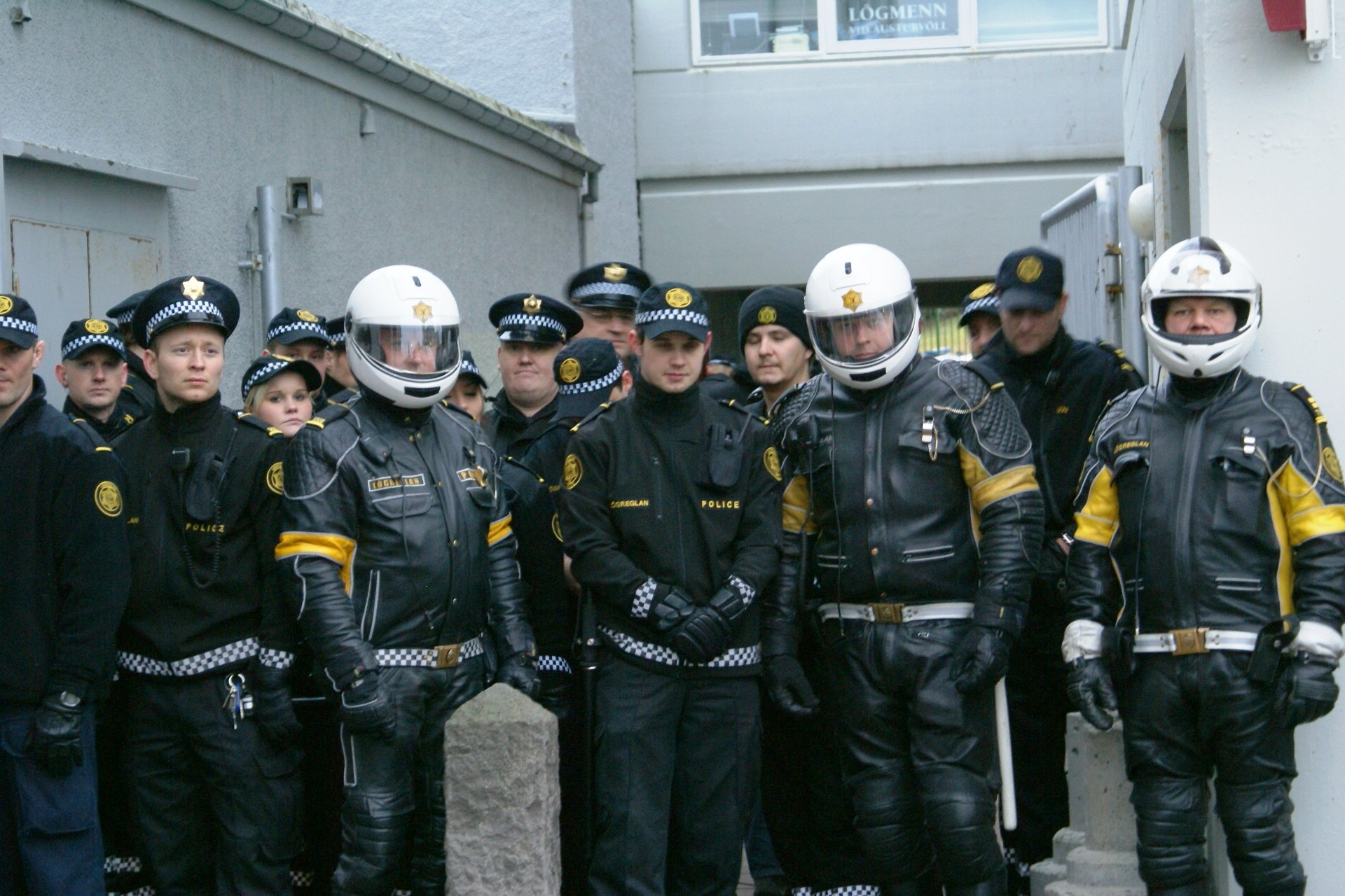 Week 12. Police force that was guarding TV the direct TV show "Kriddsíld" at Hotel Borg. The TV show was diccontinued after some rioting.